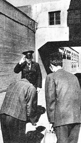 Prisoner release in Japan